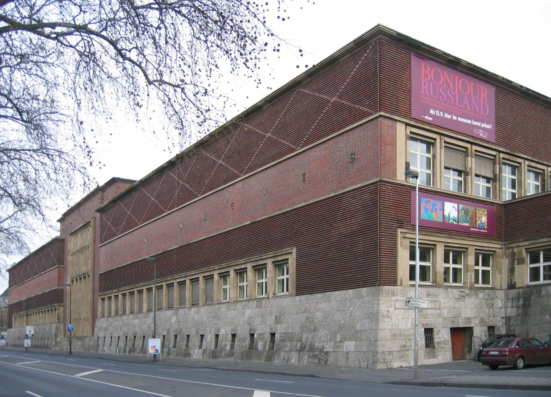 The building of the museum kunst palast in Düsseldorf, Germany